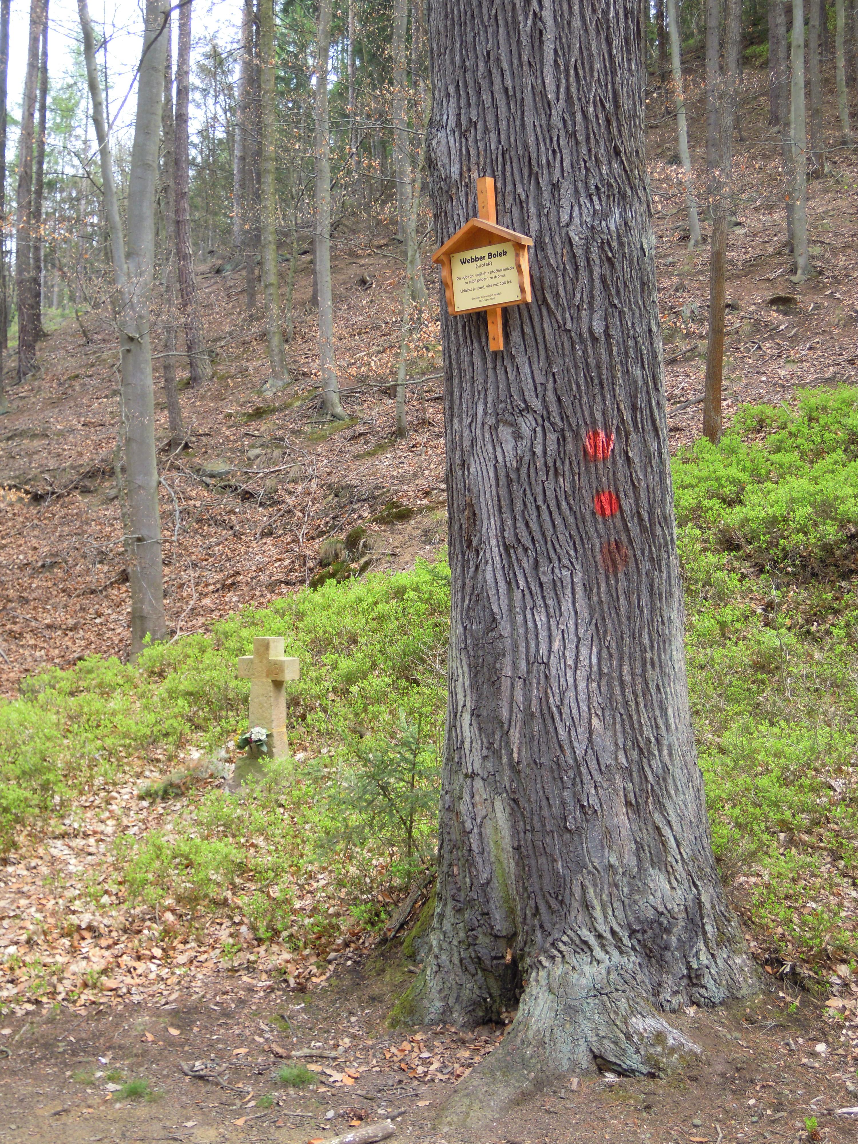 Conciliation cross at Plzeň-Bolevec, Meran valley near Doubi